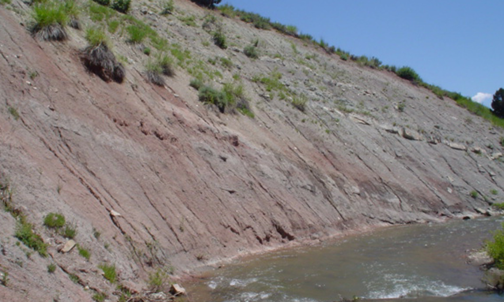 Typical outcrop of the Wayan Formation.